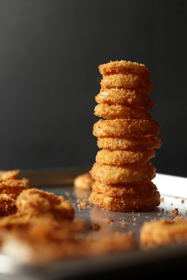 You are free to: Share — copy and redistribute the material on your website on the internet in any format. Adapt — remix, transform, and build upon the material for any purpose on the internet, even commercially. However, you must give appropriate credit and provide a link next to the image you use to and the original post, here